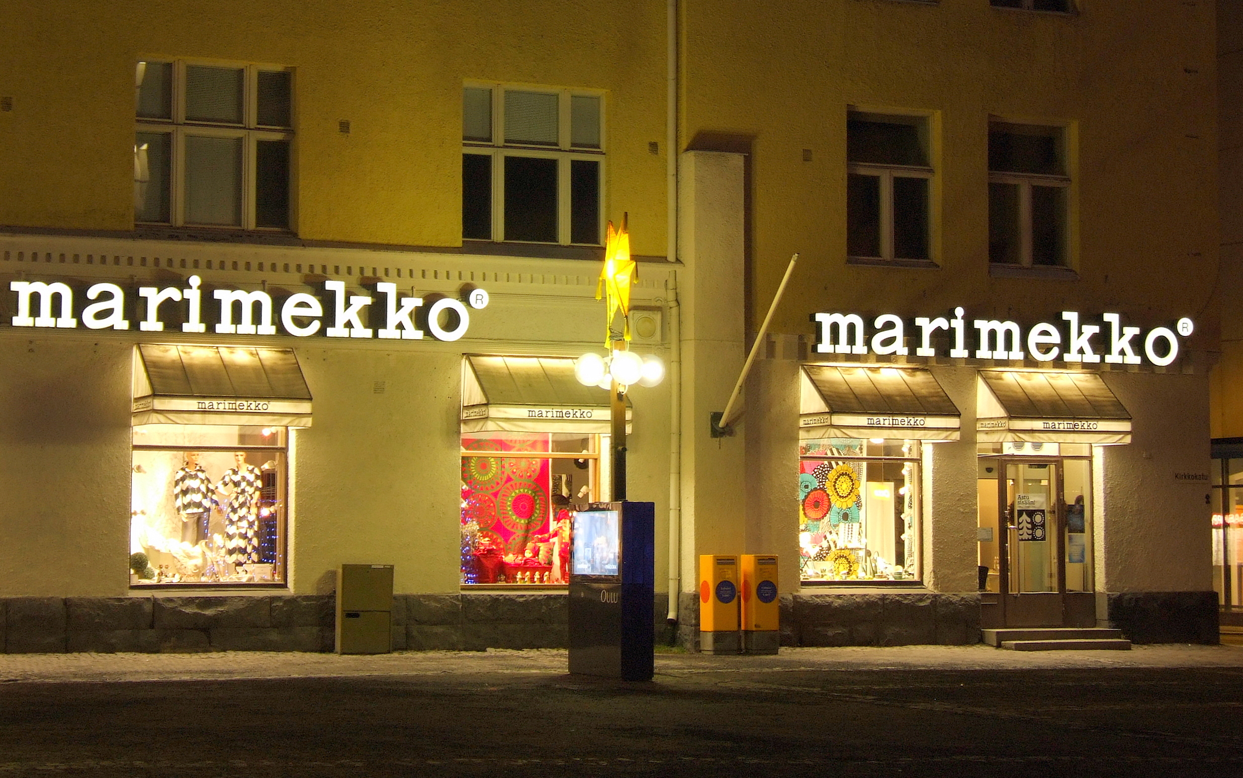 Marimekko shop in Kirkkokatu street, Oulu.